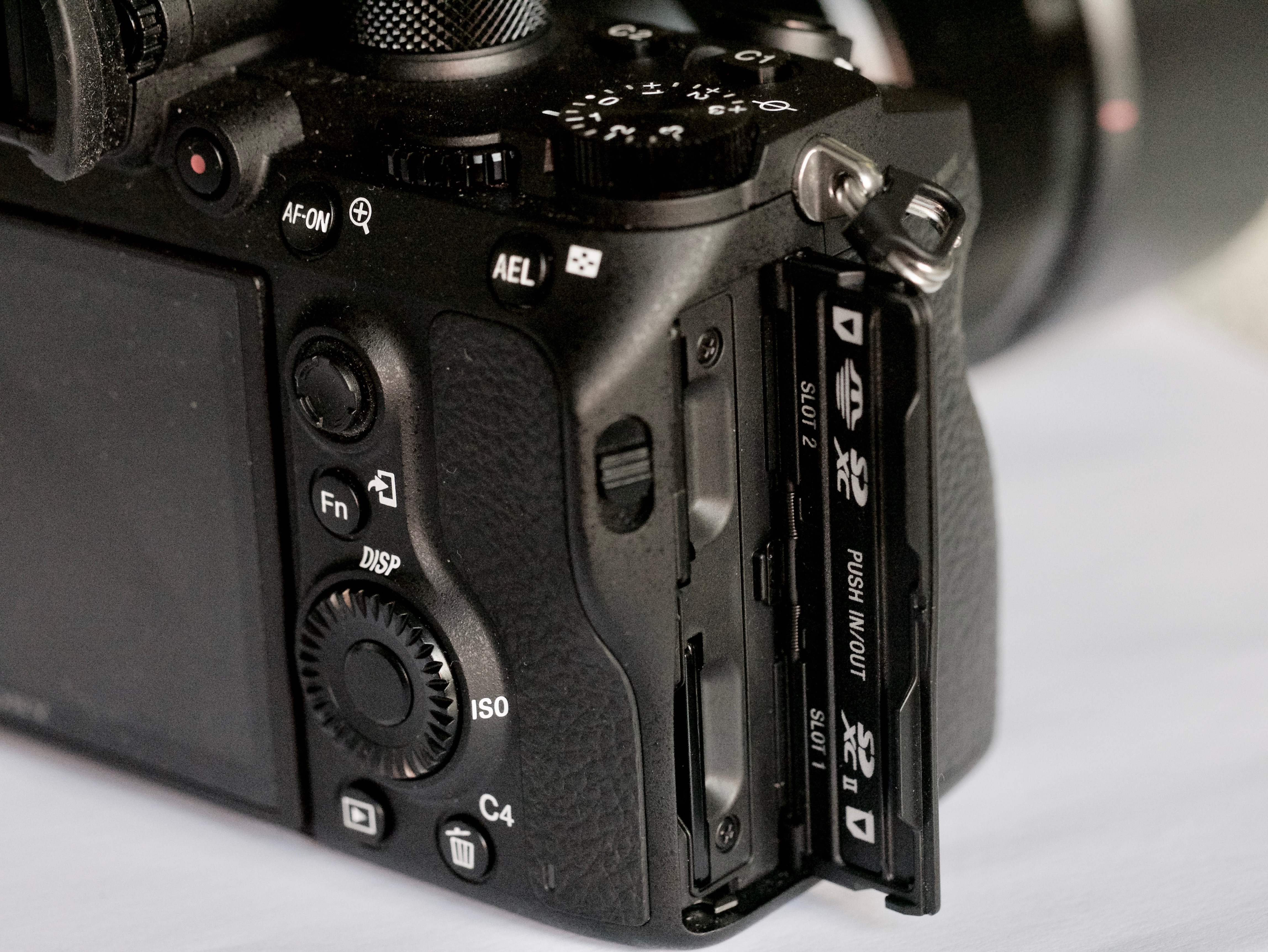 Dual memory card slots of the Sony a9. The top is the SD XC slot and the bottom part is the faster SD XC II slot